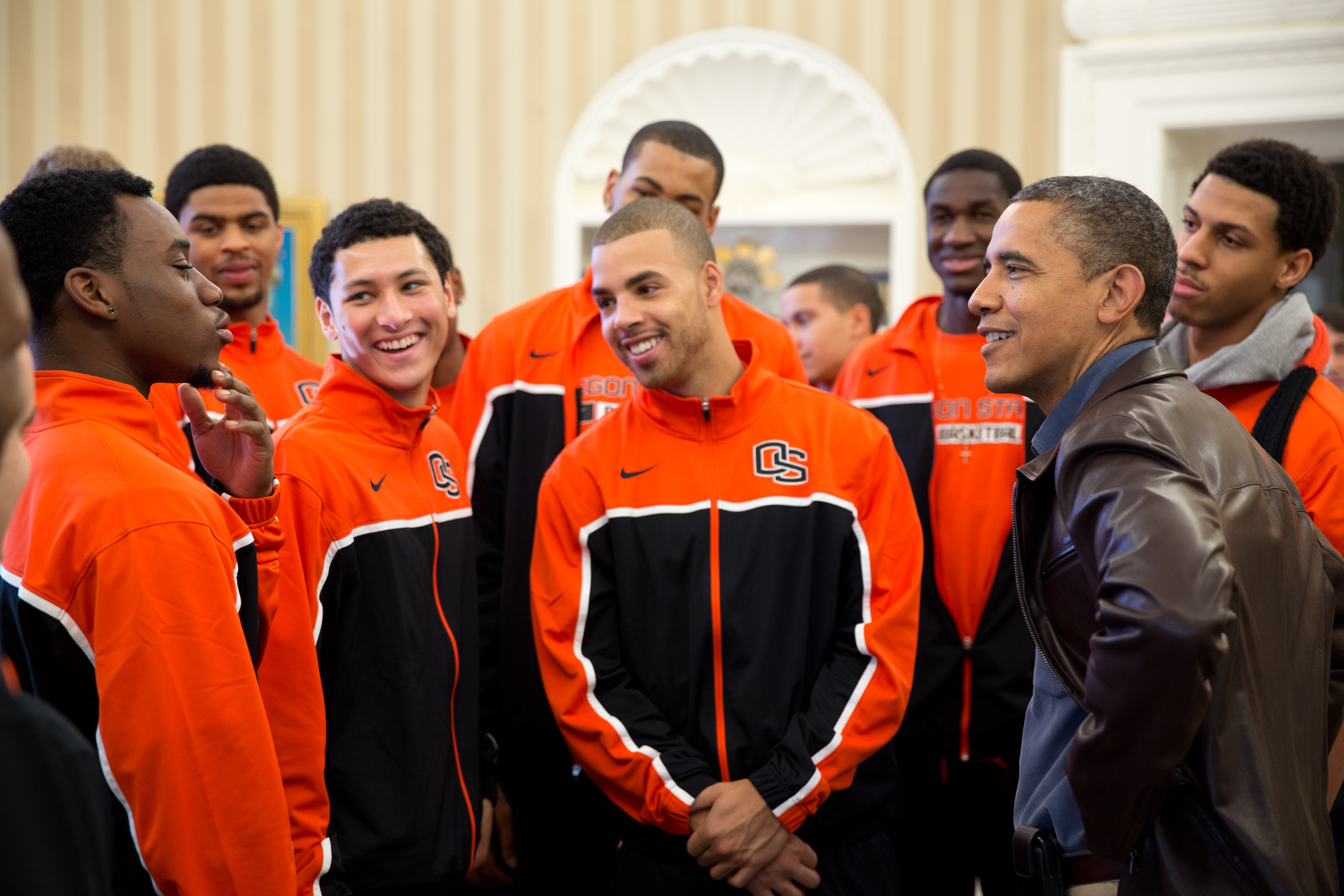 United States President Barack Obama jokes with players from the Oregon State University basketball team in the Oval Office on Thanksgiving Day, 22 November 2012. The team's head coach is Craig Robinson, brother of First Lady Michelle Obama.